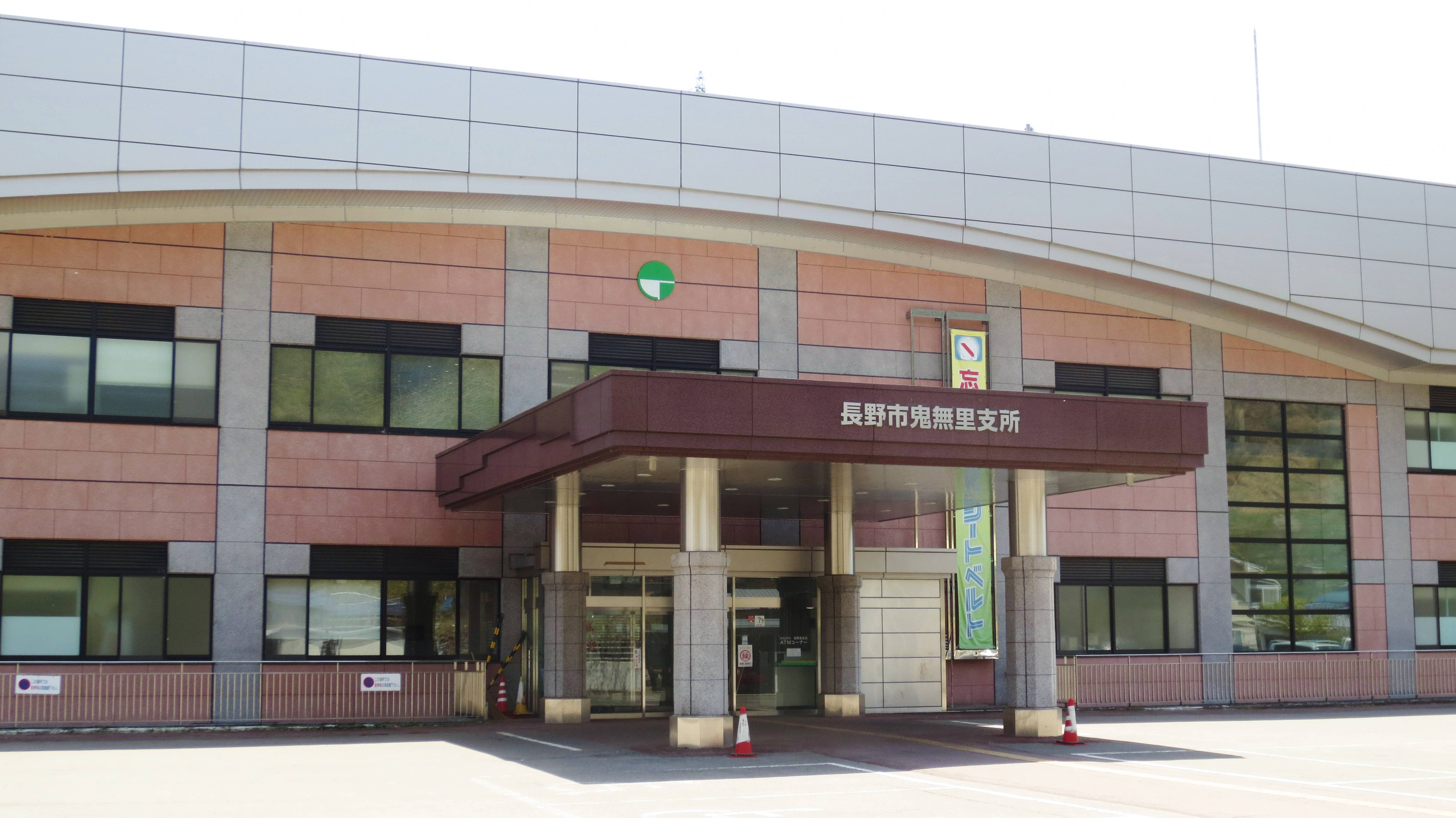 Nagano city Kinasa branch office.